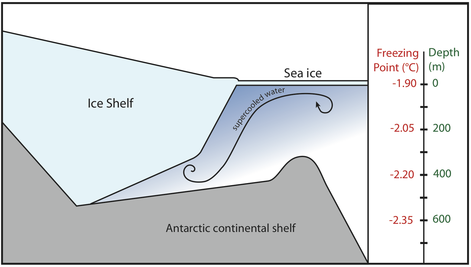 A schematic that shows how the pressure-dependent depression of the freezing point of seawater can lead to the formation of supercooled seawater near the surface adjacent to large, thick, floating Antarctic ice shelves. Where seawater interacts with ice, it must come to the equilibrium in-situ freezing point at that depth. If the water then moves upwards in the water column, its temperature will be below the in-situ freezing point at these shallower depths - it will be supercooled. This mechanism is driven by thermohaline circulation, and may be referred to as an "ice pump". Supercooling (being slightly below the in-situ freezing point) drives the formation of anchor ice on the seafloor adjacent to ice shelves. No horizontal scale is provided or appropriate; the horizontal dimension represented in this schematic may be as large as 1000 km if representing the the Ross Ice shelf and Ross Sea. Also, note annual sea ice thickness may be 1-3m, which is not well-represented here.